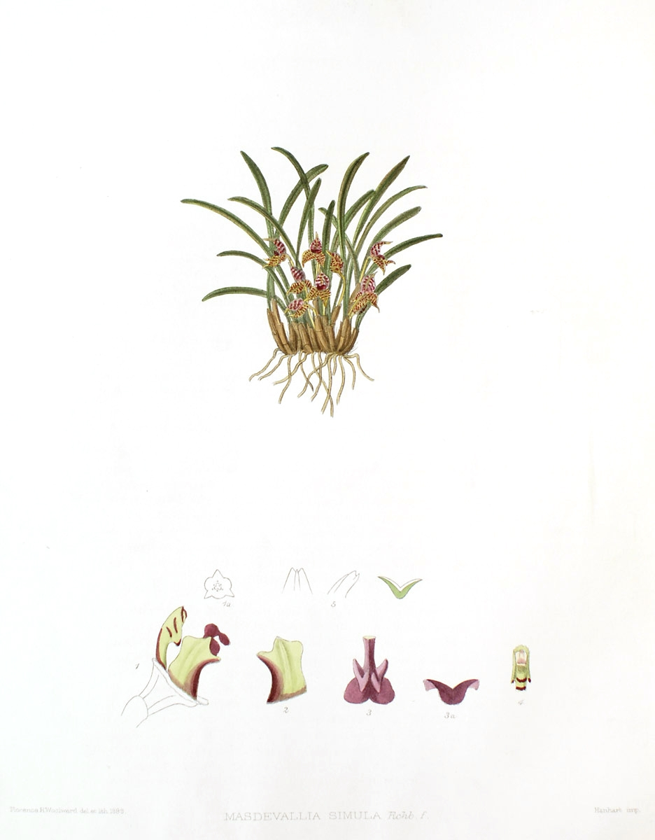 Illustration of Dryadella simula from Florence H. Woolward: The Genus Masdevallia